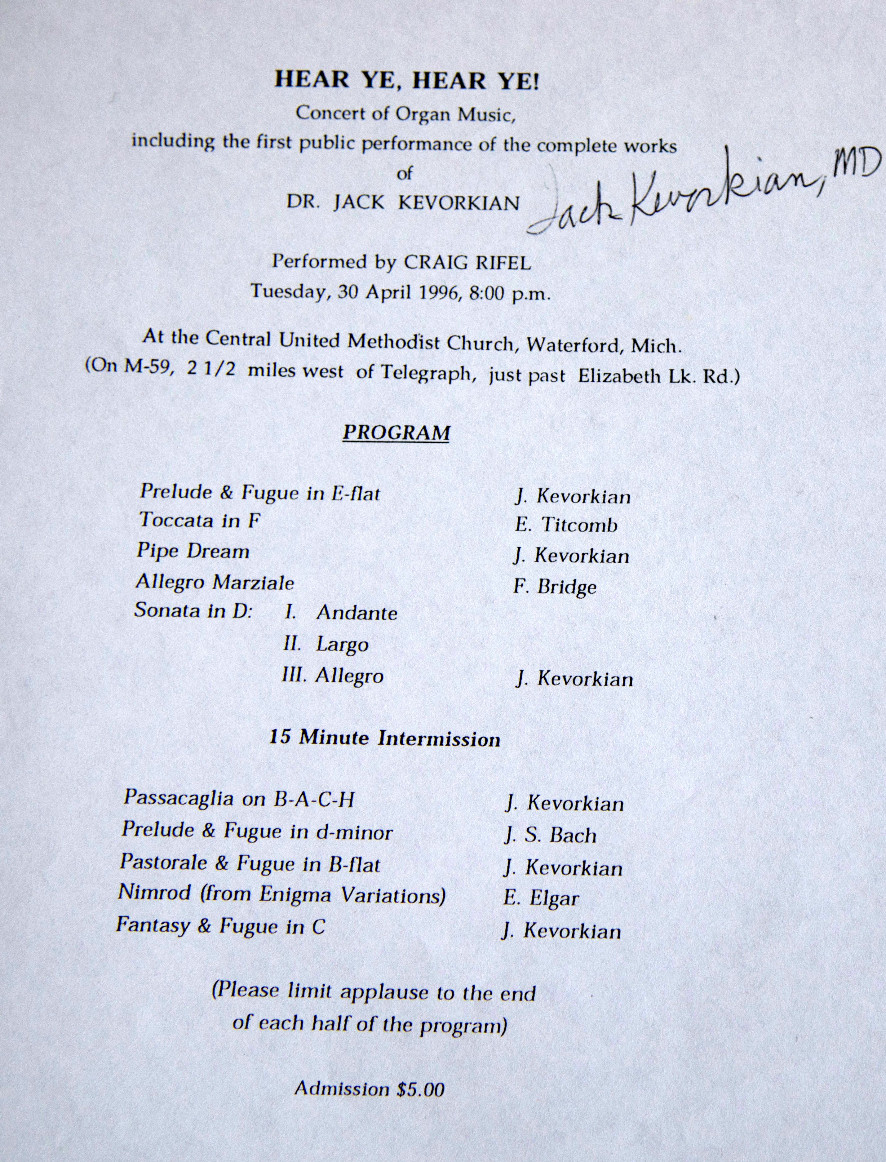 A concert program from the first performance of Jack Kevorkian's classical organ compositions. The concert took place on Tuesday, April 30, 1996 at the Central United Methodist Church in Waterford, Michigan, performed by Craig Rifel.